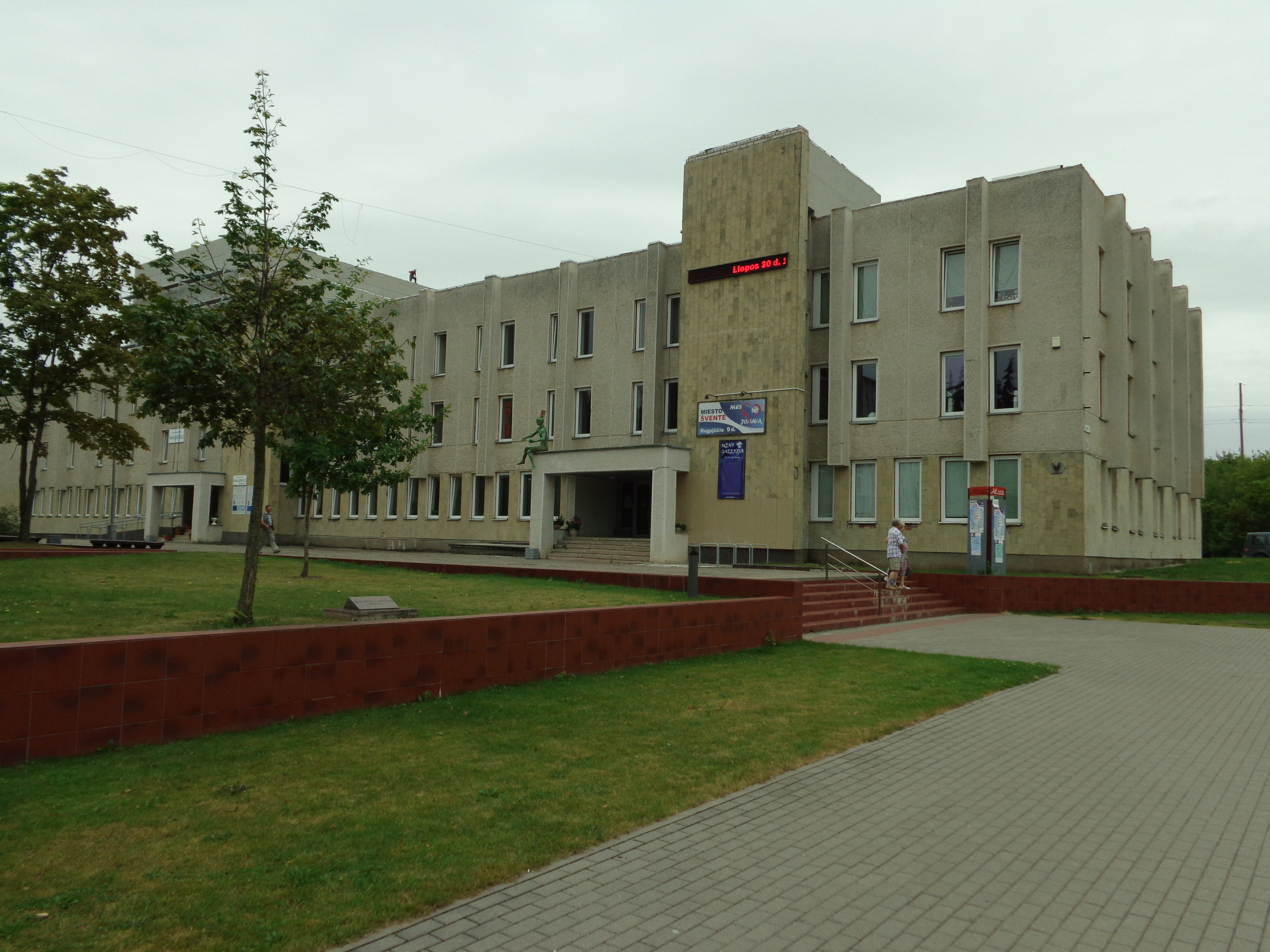 Jonava's Culture Center, 2014